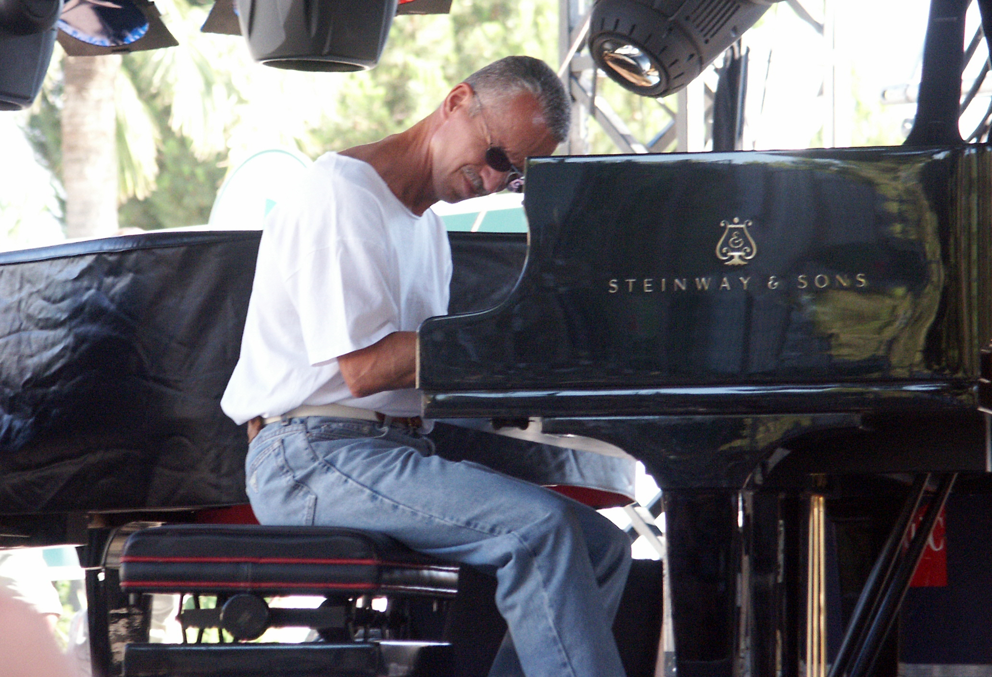 Keith Jarrett playing a Steinway & Sons grand piano during the soundcheck at the Jazz à Juan festival in Juan-les-Pins, Antibes, France, on 17 July 2003. The image was cropped and retouched in order to eliminate some defects as the logo of the supplier of the piano.